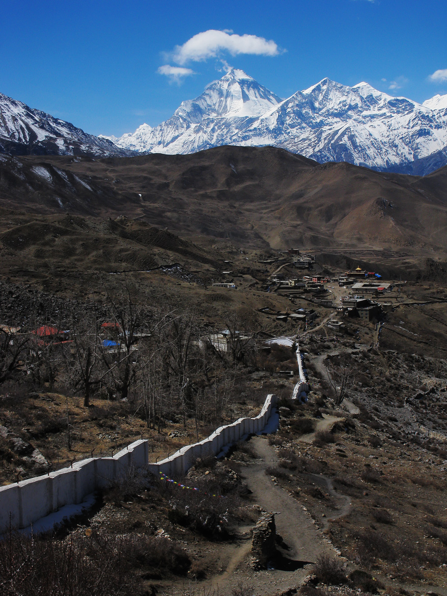 Muktinath (down, hindu temple (left, behind the fence), and Dhaulagiri peak above, the pic was taken during "annapurna circuit" trekking, in march 2008.